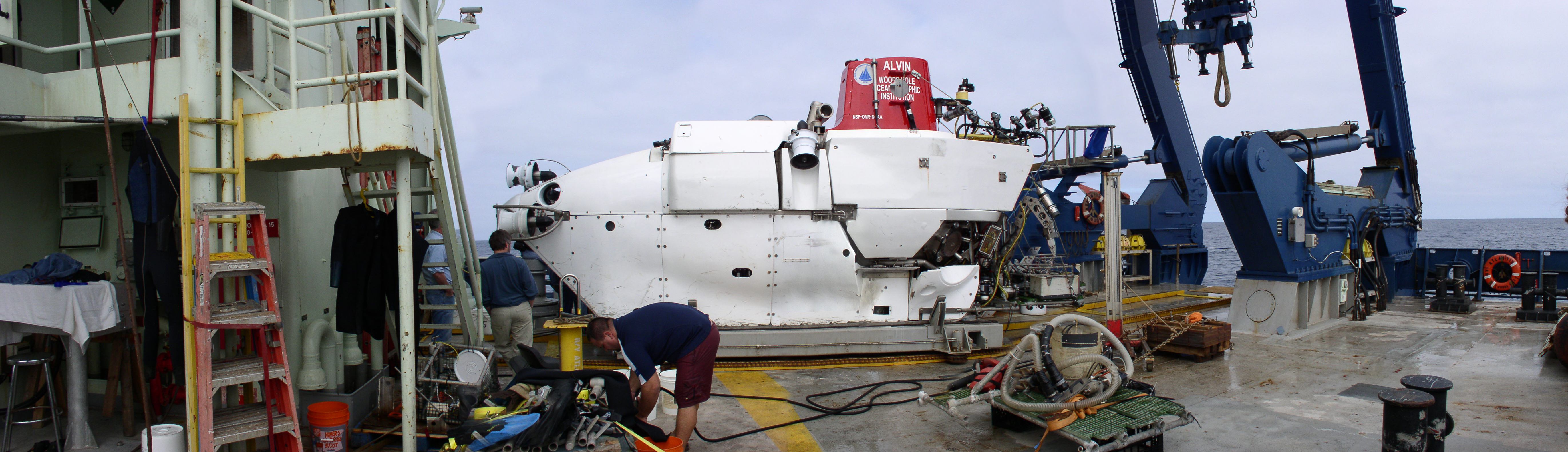 This is a panorama of the ALVIN on the fantail (stern) of the R/V Atlantis following a dive. On the right side of the photograph the A-frame crane can be seen that lowers the ALVIN into the water and on the left, the ALVIN's hangar. Adobe Photoshop 7 was used to stitch together four photographs and remove a person from the foreground.